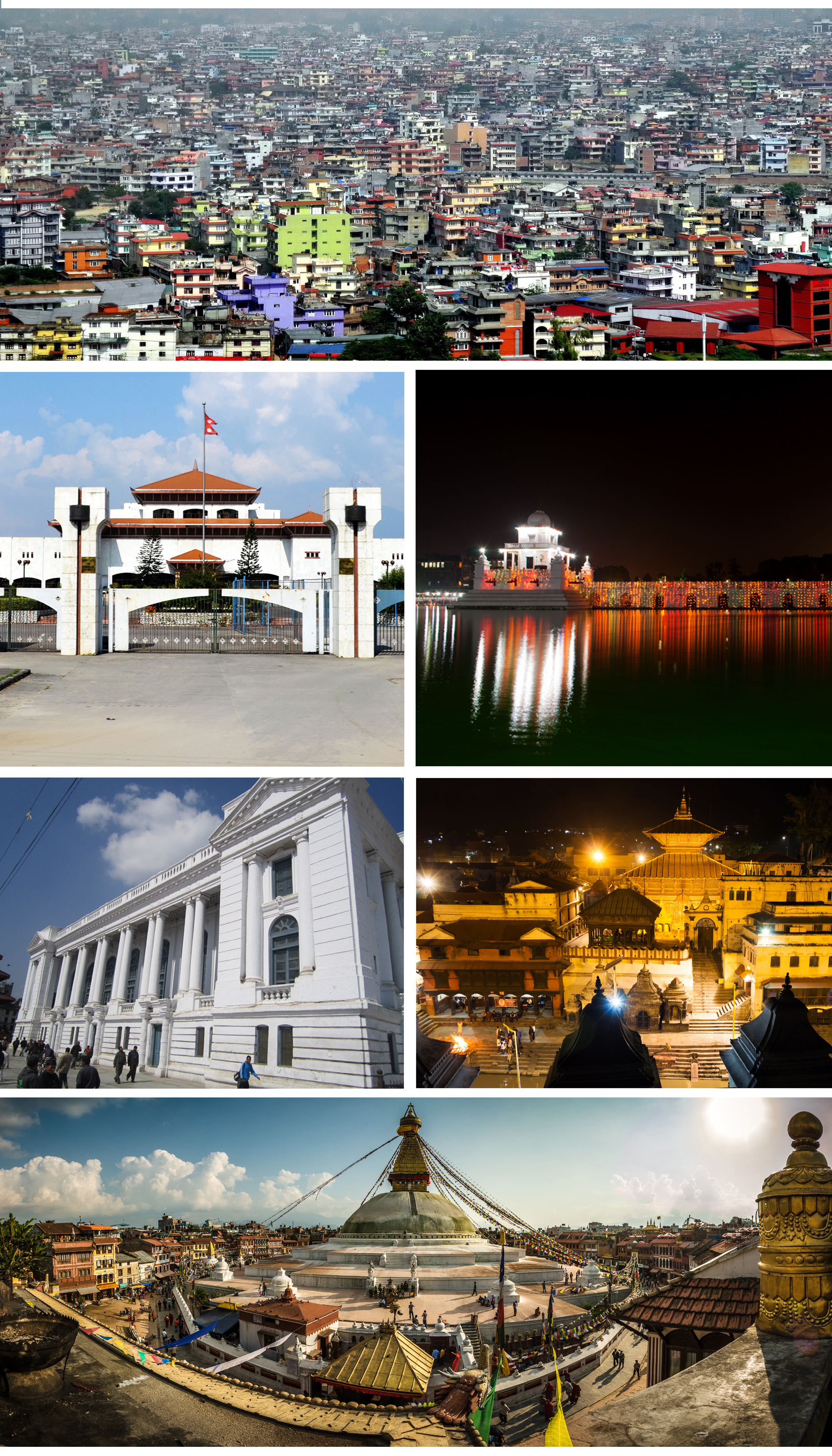 Kathmandu Photo College 2017 ː Clockwise from top: Kathmandu Skyline, Nepalese Parliament Building, Ranipokhari, Kathmandu Durbar Square, Pashupatinath Temple and Boudhanath